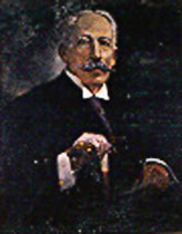 Antonio Batres Jáuregui.